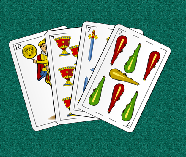 example of a very good combination of cards in the Spanish card game "el mus"